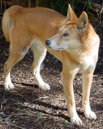 Dingo.